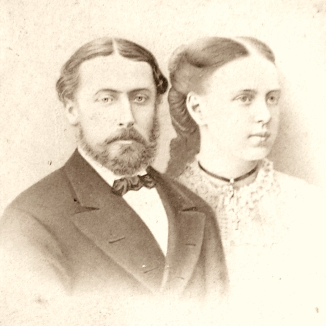 Alfred and Maria Alexandrovna of Saxe-Coburg and Gotha